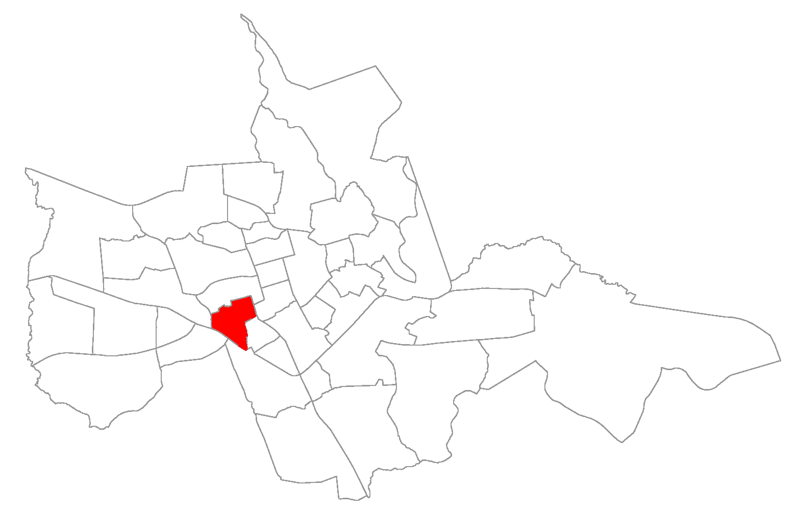 neighborhood/district of Santa Maria, Rio Grande do Sul